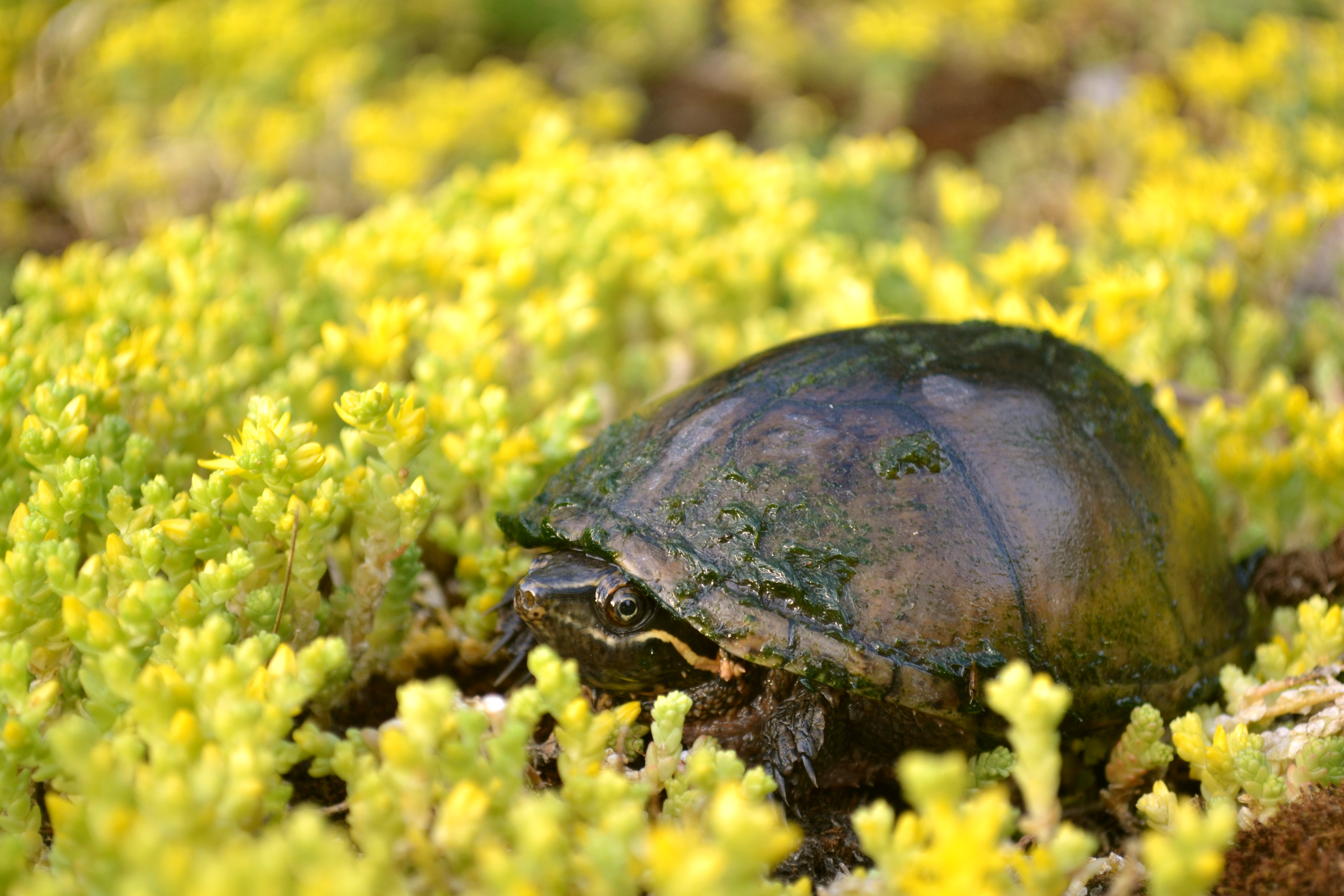 Stinkpot turtle (Sternotherus odoratus). Picture taken in Southeastern Ontario, Canada.